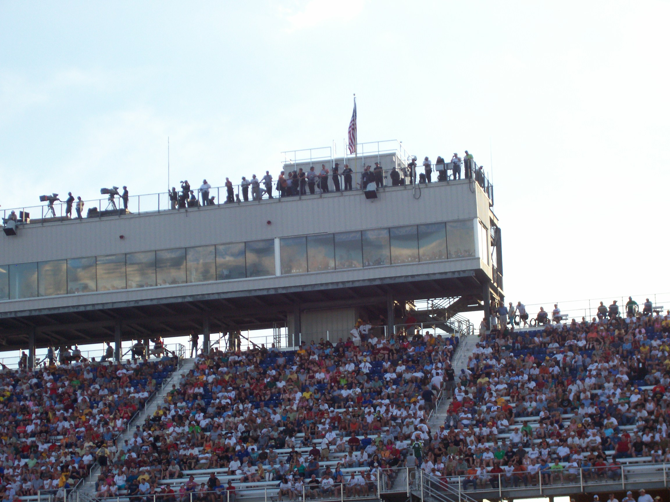 Spotters at the Milwaukee Mile NASCAR Nationwide race.